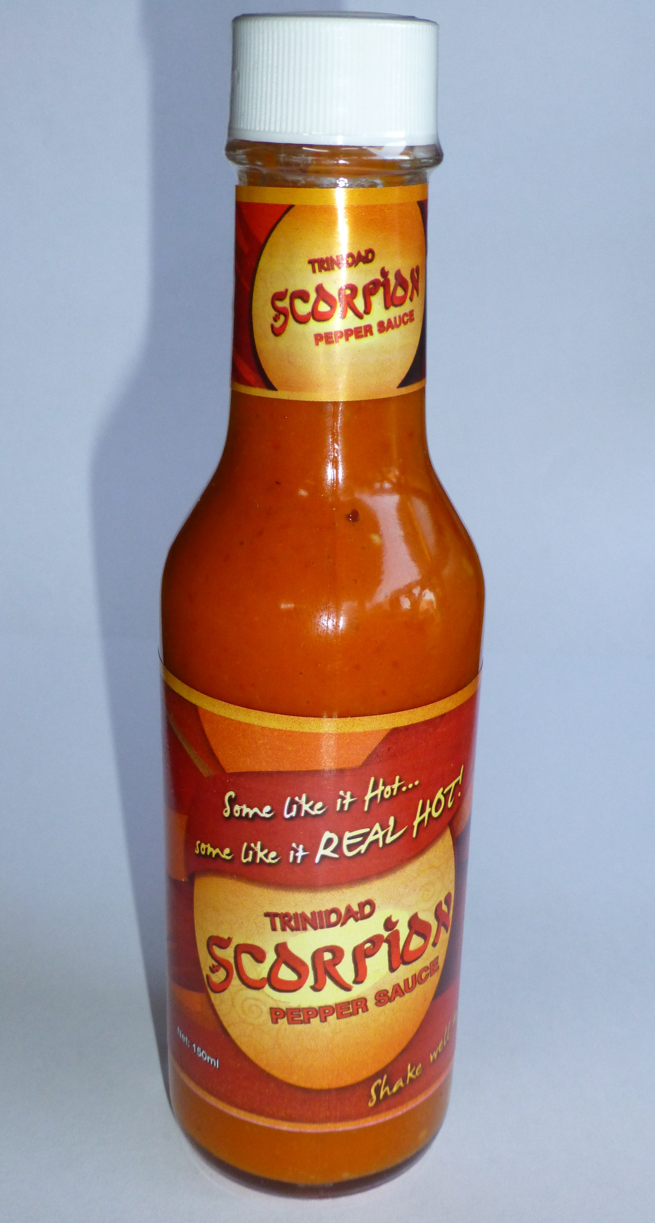 Trinidad Scorpion Pepper Sauce, a pepper sauce made from Trinidad Moruga Scorpion chilies native in Trinidad and Tobago.